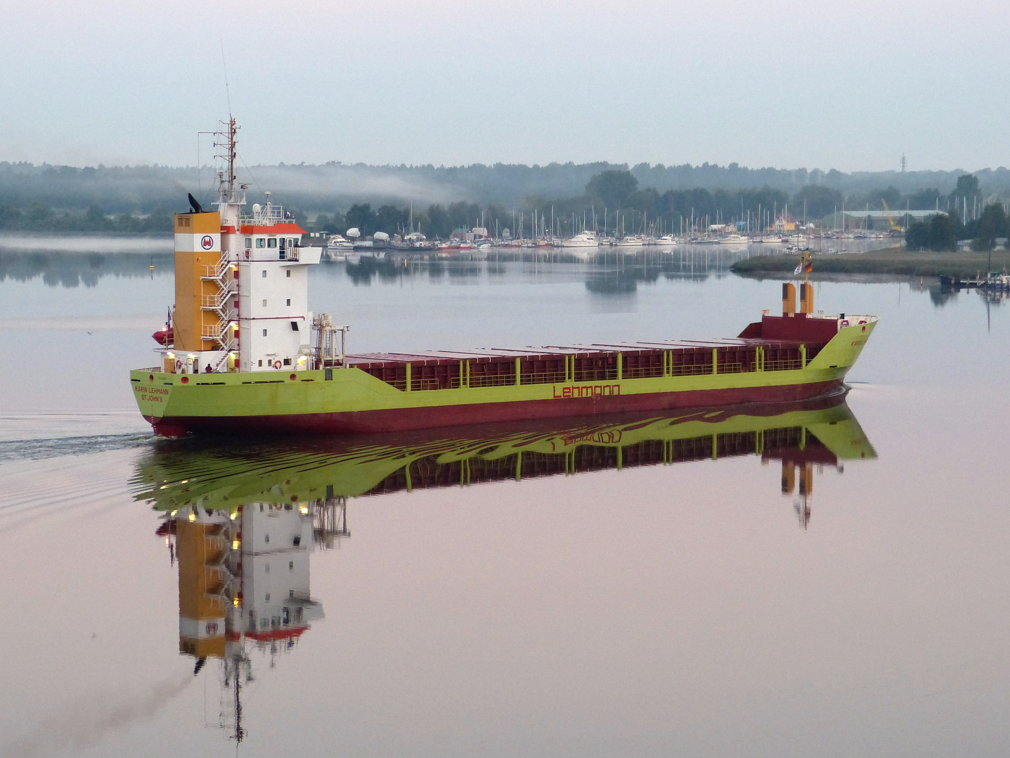 Karin Lehmann passiert den Lehmannkai 2 traveaufwärts